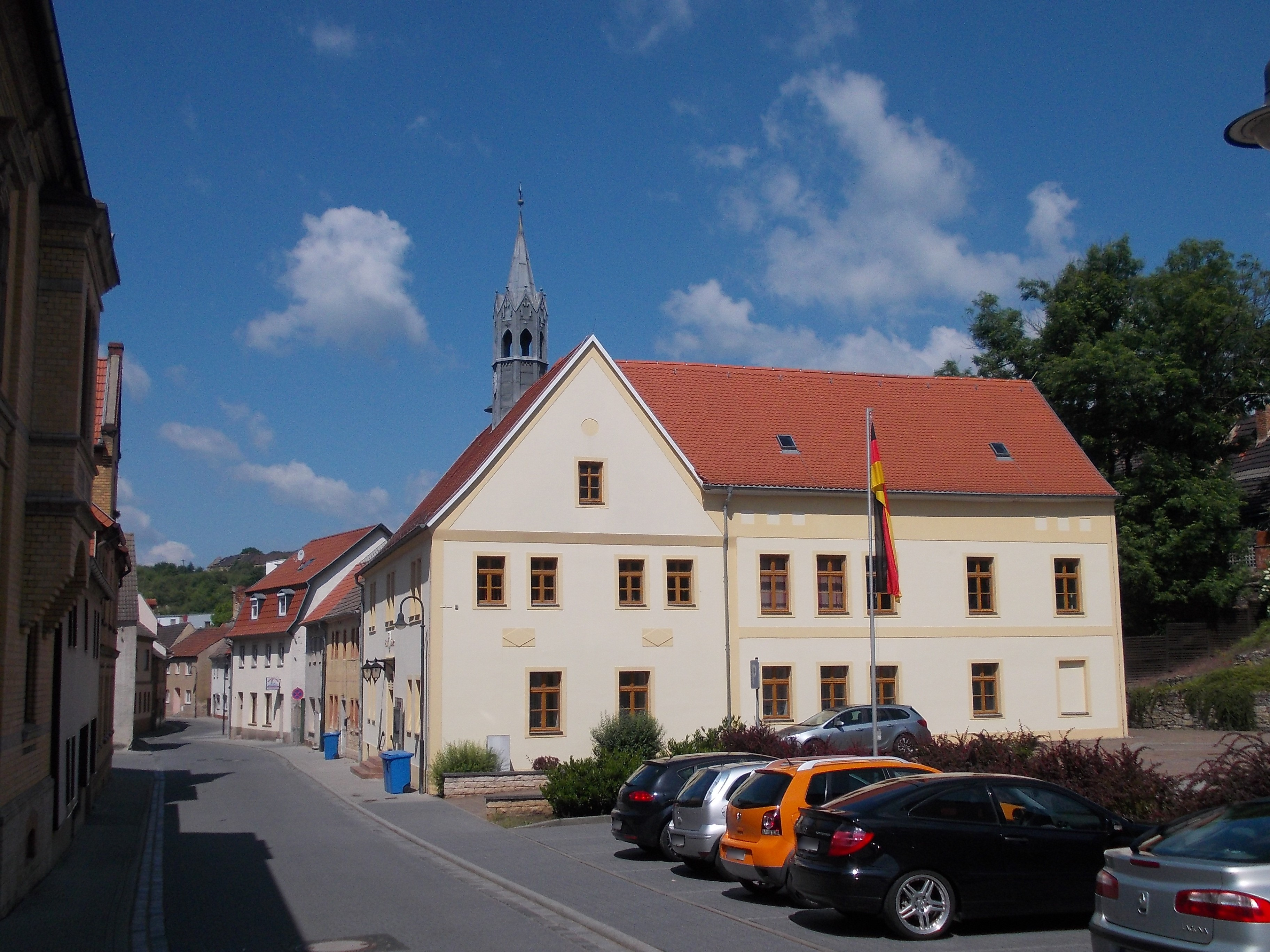 Schraplau town hall (district: Saalekreis, Saxony-Anhalt)